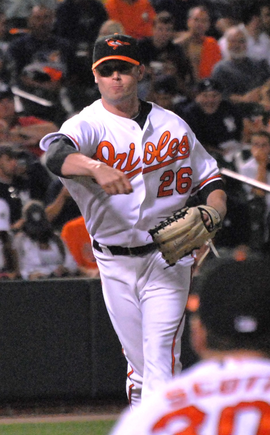 Cla Meredith